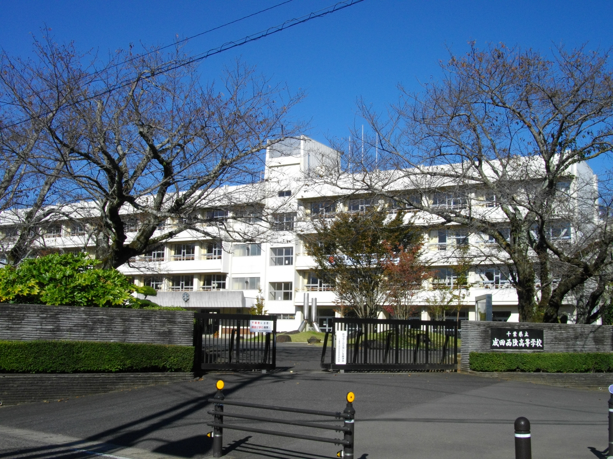 Chiba Prefectural Narita Seiryo High School